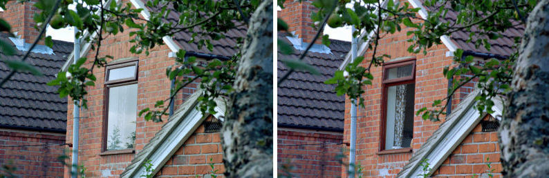 Demonstration photograph of polariser removing window reflection, taken specifically for this purpose. 35mm film, SLR, 70mm lens, 77mm poloriser. Scanned film, no pre or post processing, as taken. Light conditions: diffuse sun at about 90 degree to image axis. Southern England.